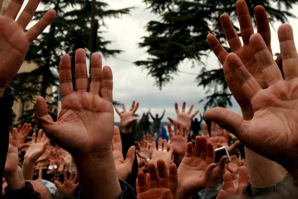 Protesters are holding up their hands to demonstrate they aren't carrying weapons